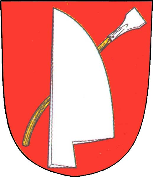 Municipal coat of arms of Tištín village, Prostějov District, Czech Republic.